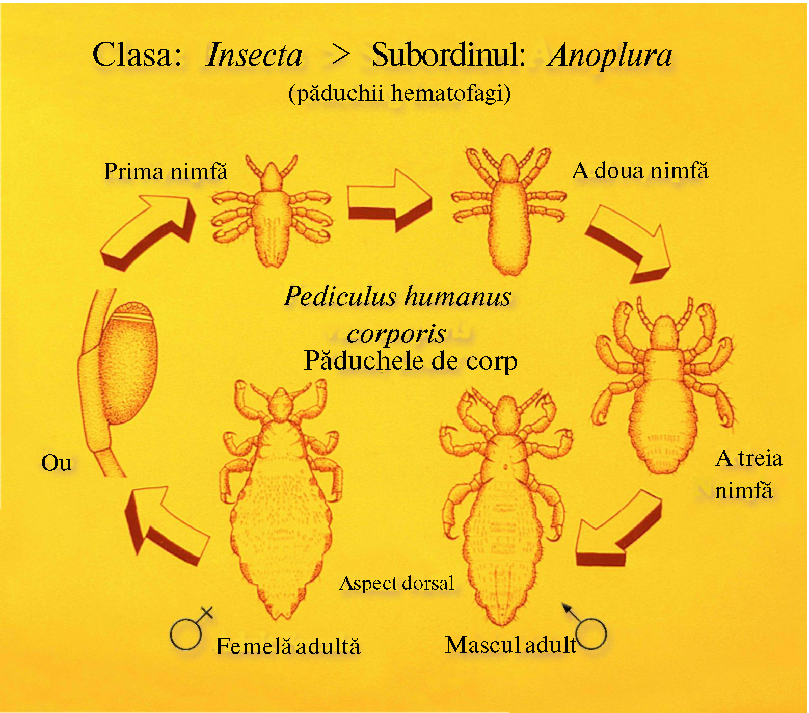 Pediculus humanus development